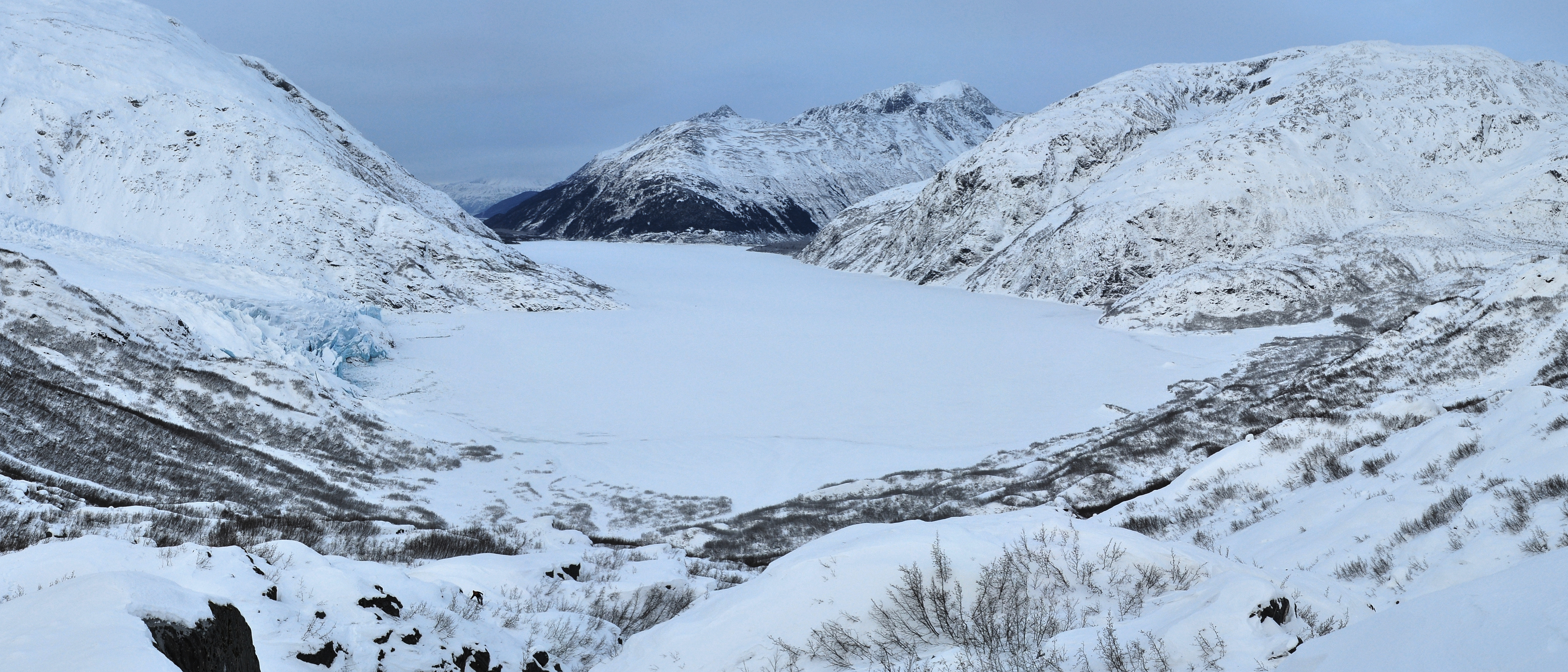 Portage Lake as viewed from near the terminus of Burns Glacier. Portage Glacier is clearly visible on the left. The pass to Whittier is visible on the right. The Begich, Boggs Visitor Center and road are at the far end of the lake.